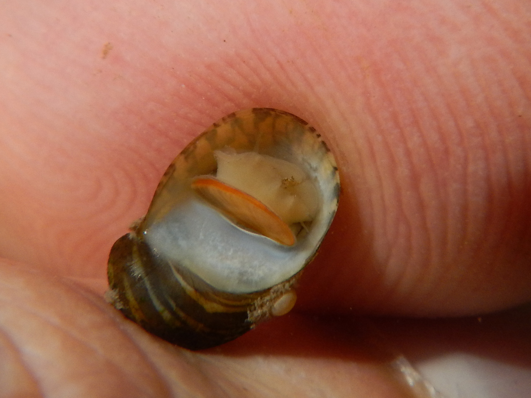 Underwater photography of Theodoxus fluviatilis here in August 2015 in the Charente (France). This mollusk was on the lower part of a submerged branch partly covered of Periphyton) in a secondary part of the river in the downstream part of its crossing of the agglomeration of Angouleme.